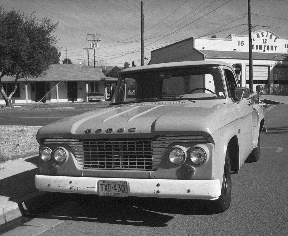 1961 Dodge D-100, 1976, somewhere in Manitoba, Canada